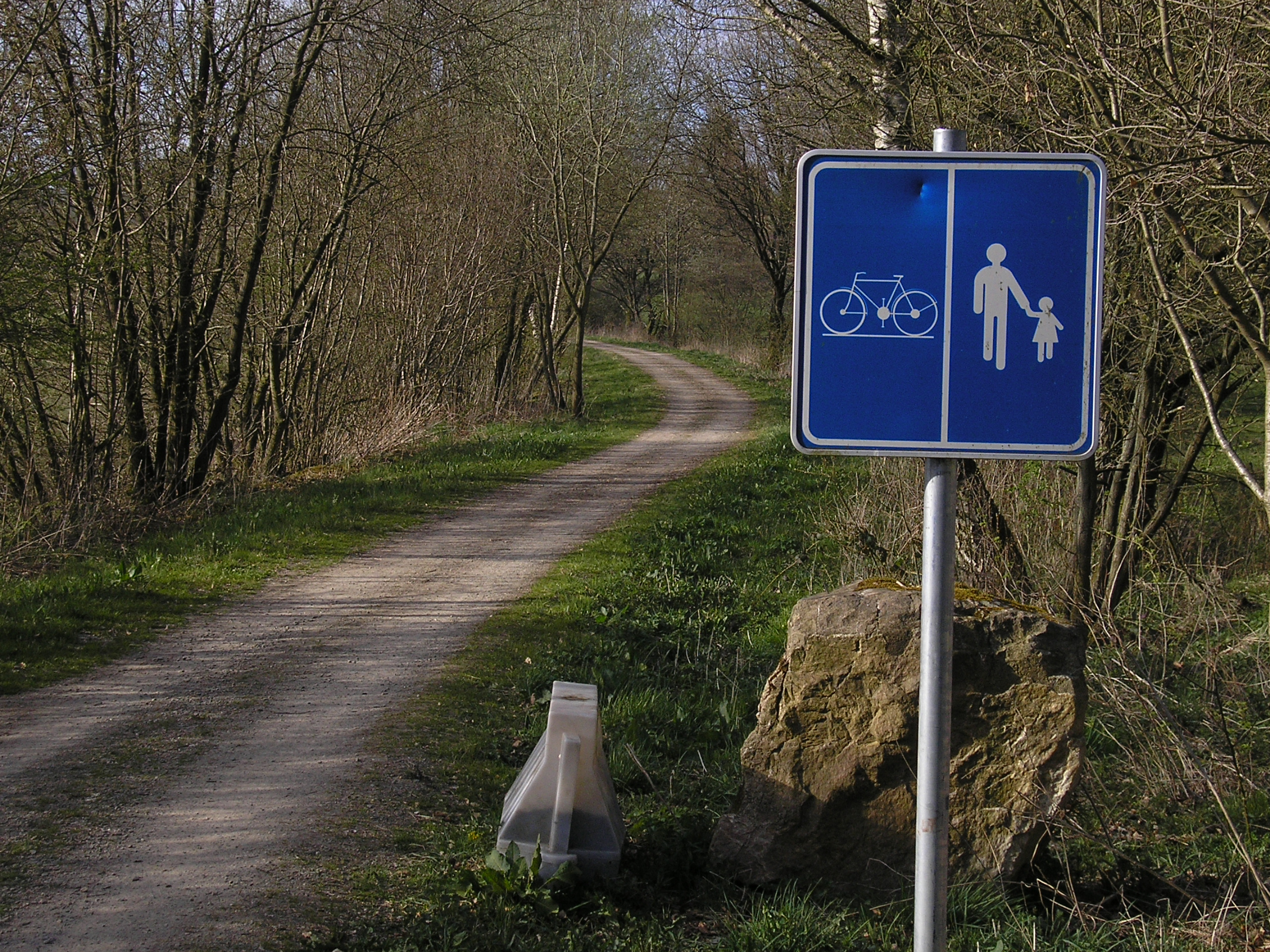 RAVeL in East Belgium, old railwayline near Ondenval